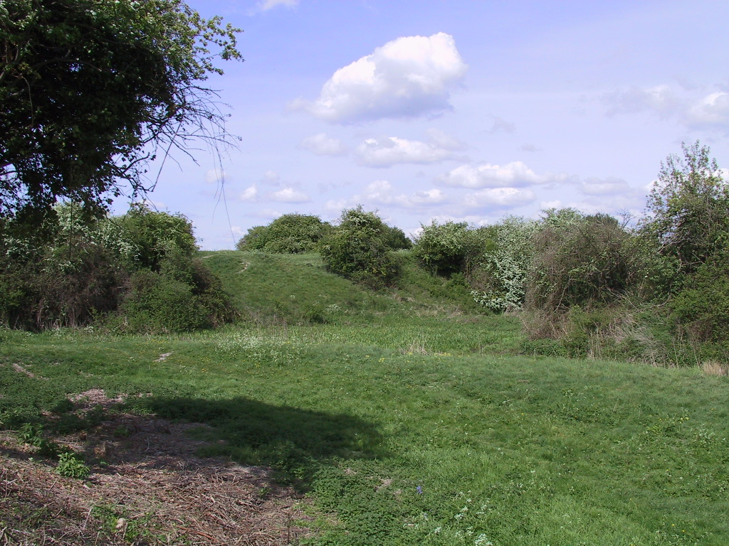 Burwell Castle Site Burwell Castle Earthworks, looking towards the mound on which the castle once stood, viewed across (what was once) the moat.